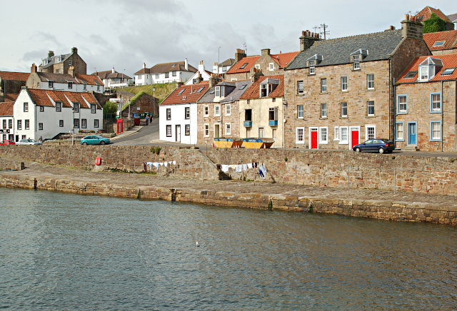 Shore St, Cellardyke With the harbour at high tide.